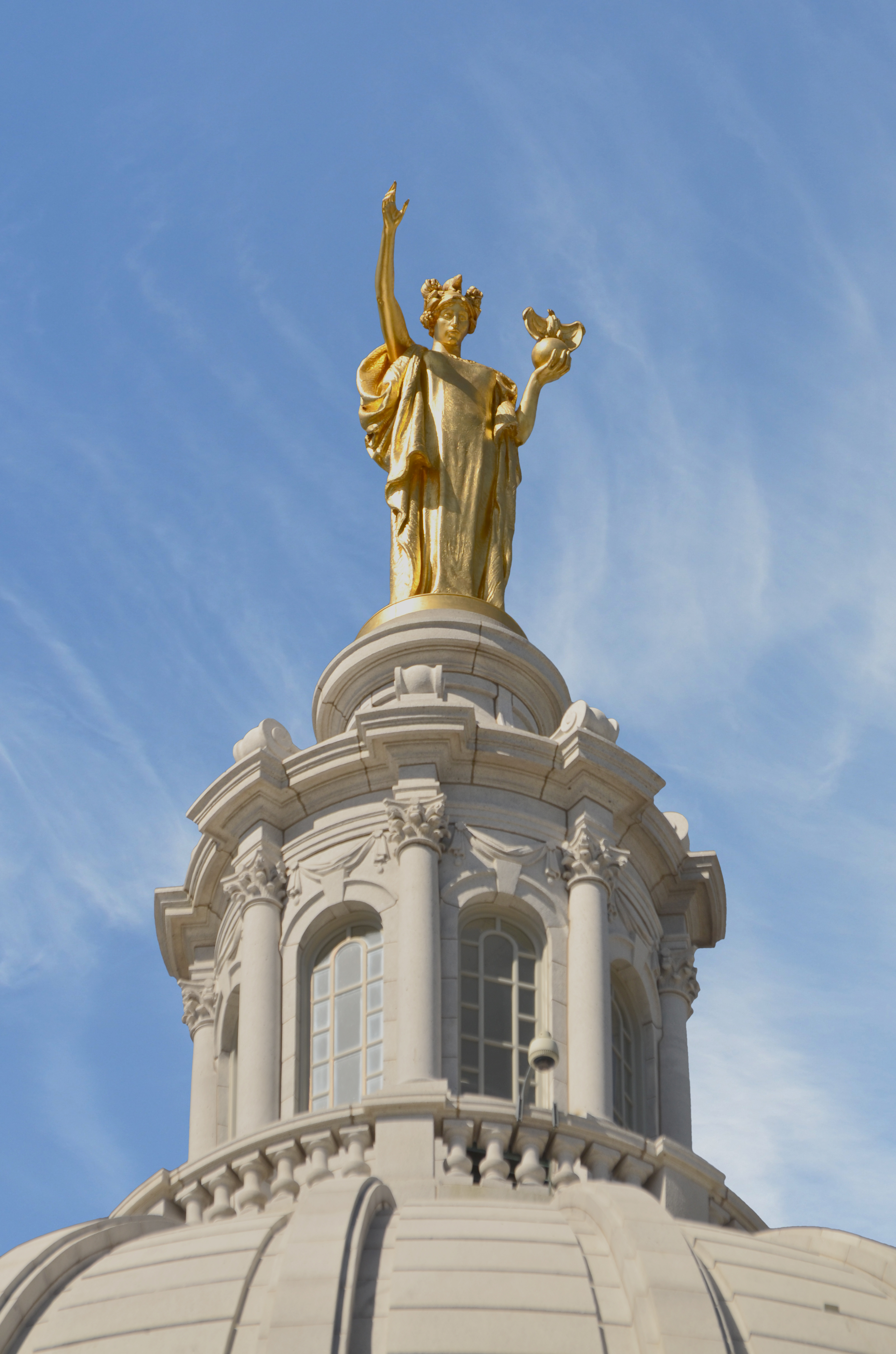 Gilded bronze statue titled Wisconsin, by Daniel Chester French, 1914, atop the dome of the Wisconsin State Capitol in Madison